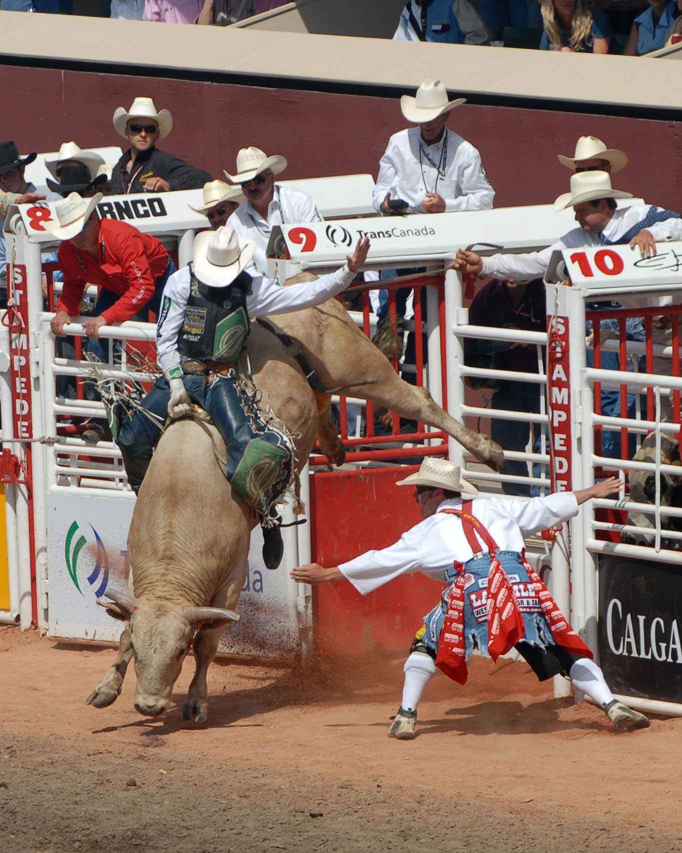 A bull riding contestant at the Calgary Stampede rodeo. Photo by Chuck Szmurlo taken July 10, 2007 with a Nikon D200 and a Nikon 70-200 f2.8 lens.